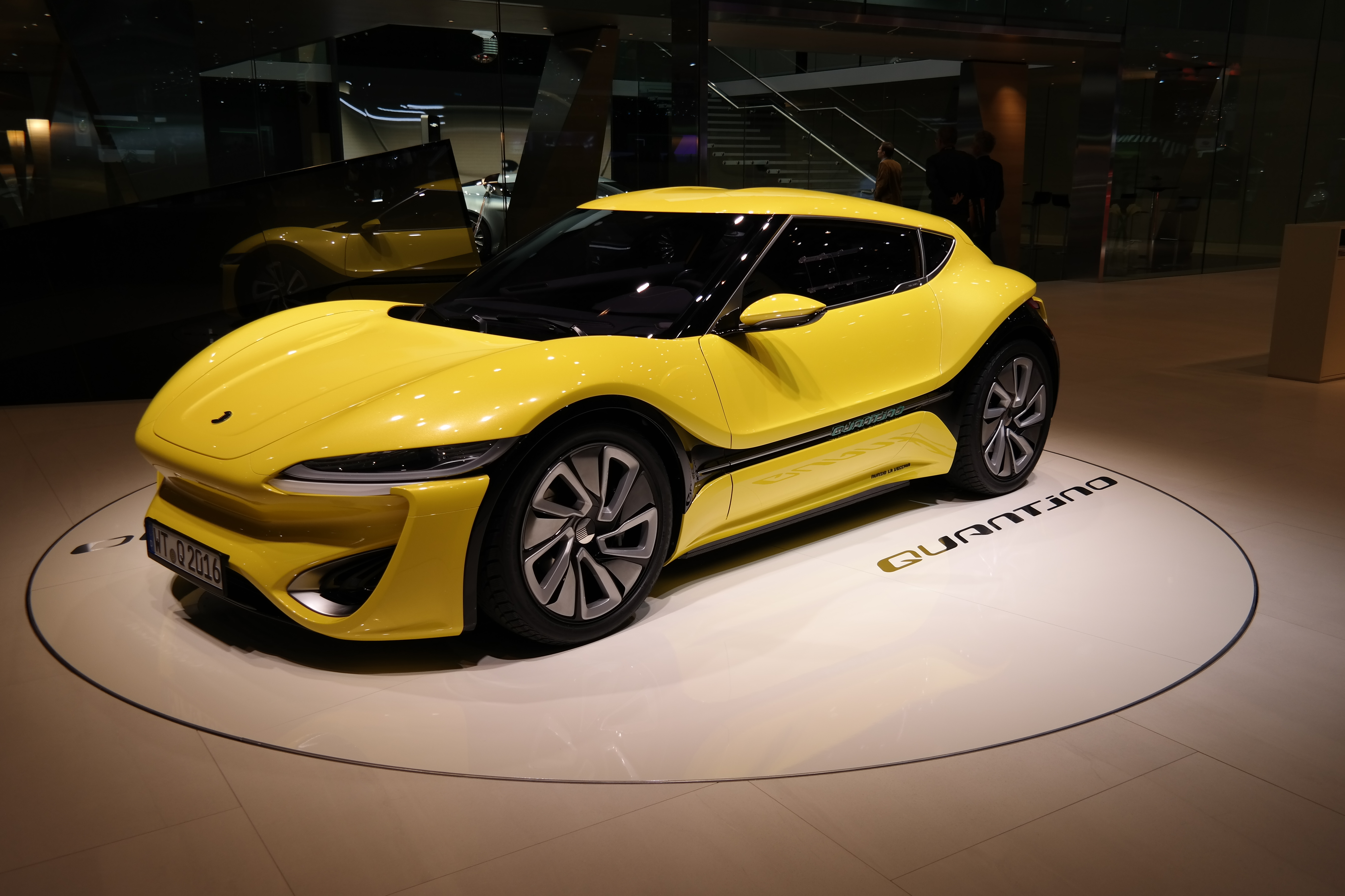 Geneva Motor Show 2016 (photo taken on the first press day)